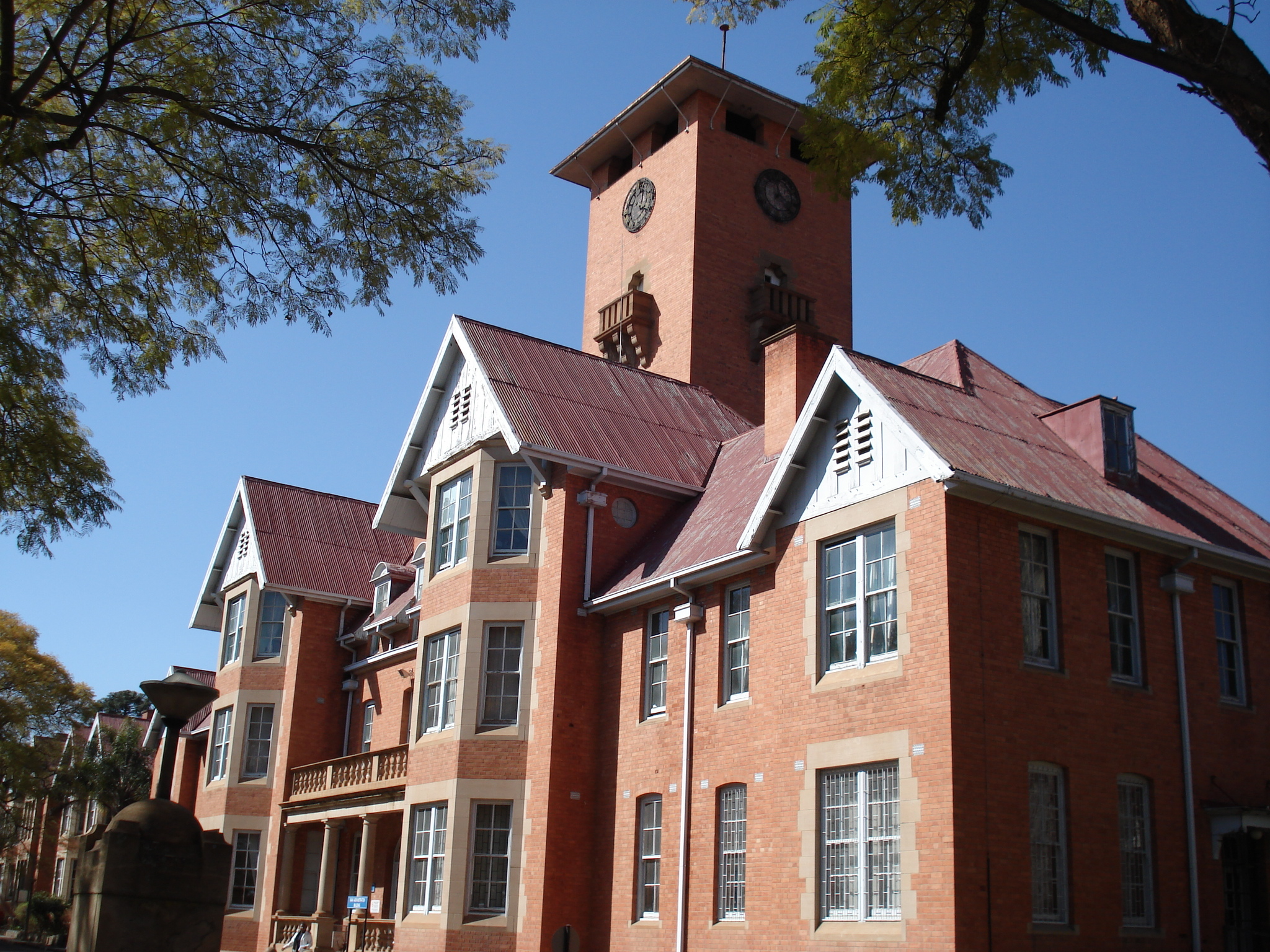 This media shows a South African Protected Site with SAHRA file reference 9/2/258/0069.